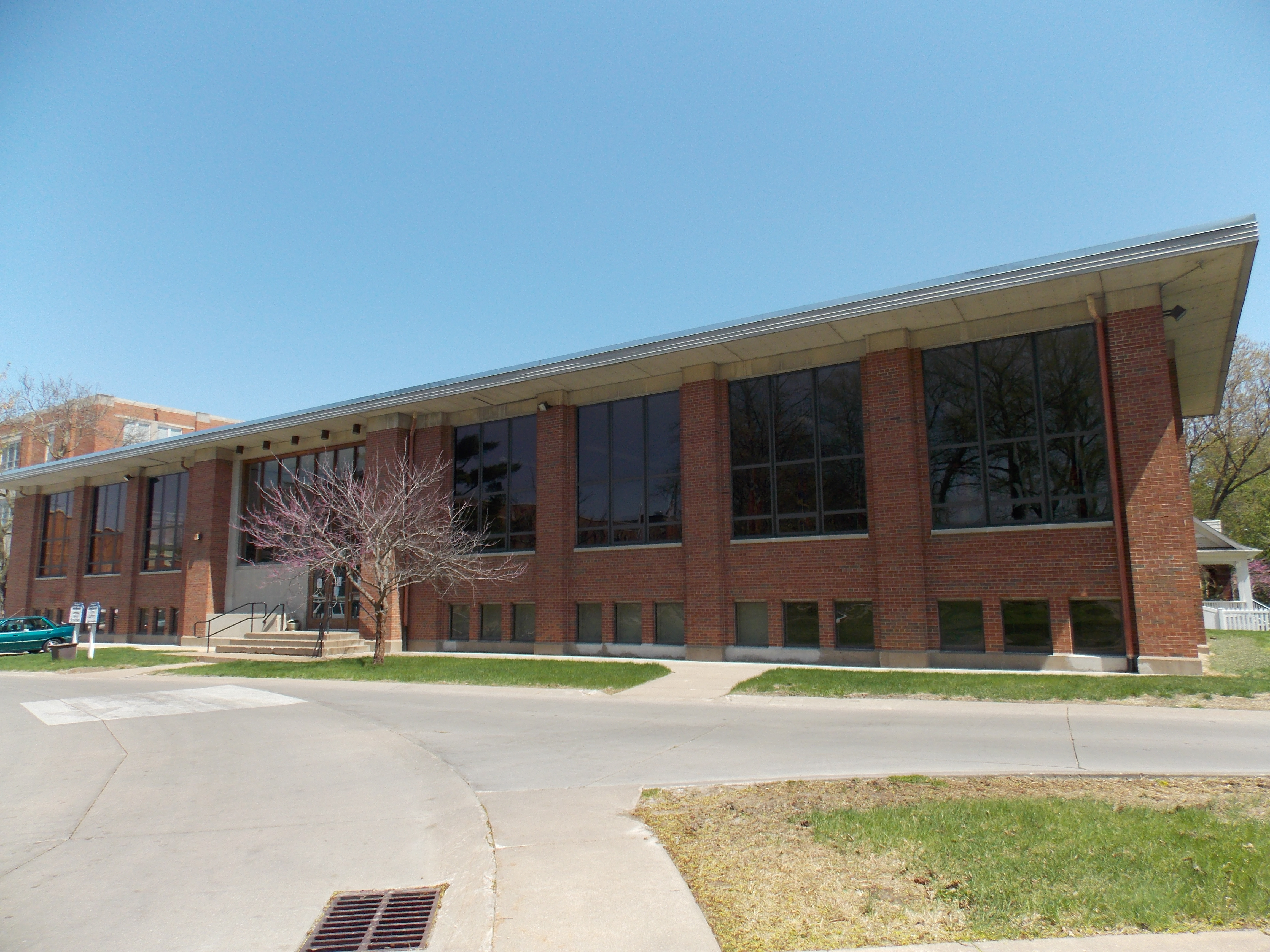 Cone Library on the campus of the former Marycrest College in Davenport, Iowa. The campus forms an historic district on the National Register of Historic Places, and now houses apartments for senior citizens.